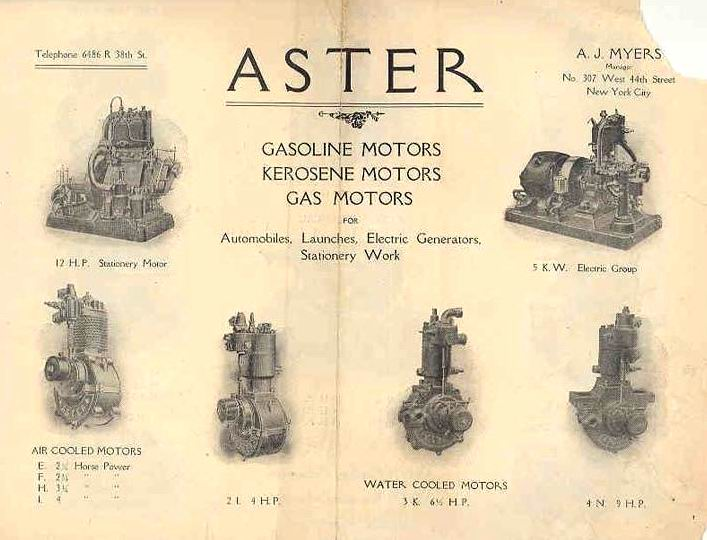 Brochure for Aster engines manufactured by 'Ateliers de Construction Mecanique l'Aster' and distributed in the USA by 'A J Myers' circa 1900(s)